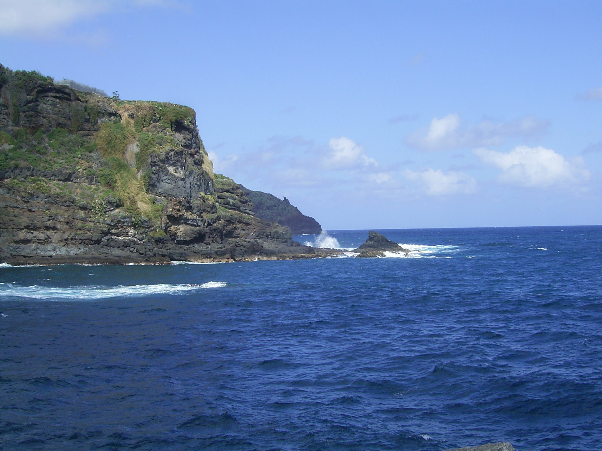 View of part of the coast near Puerto Espindola, San Andrés y Sauces, La Palma, Canary Islands